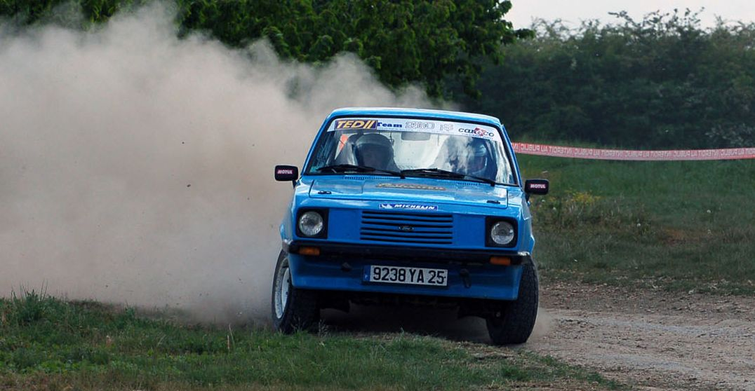 RallyCar Ford Escort Mk2 RS2000